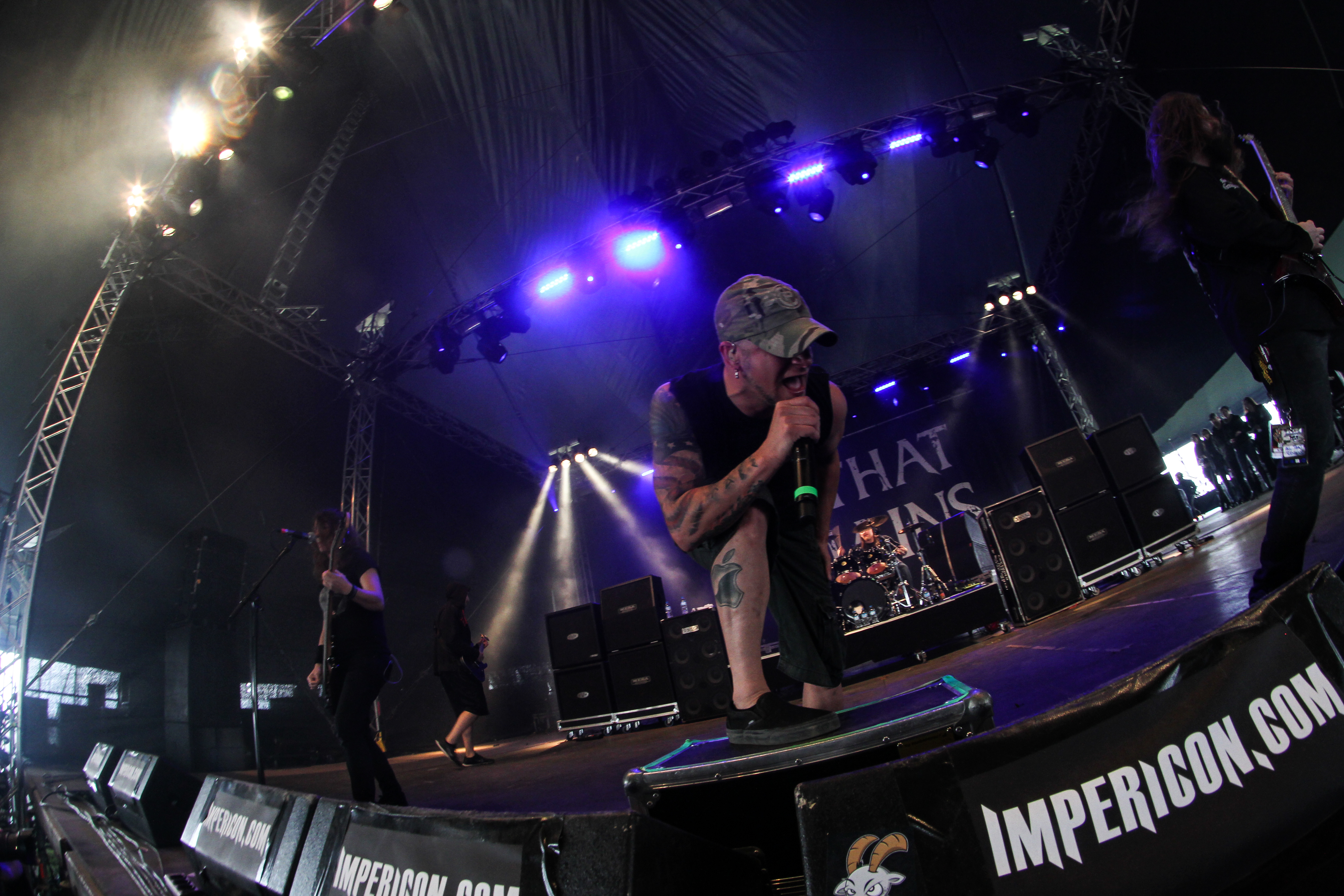 US Band All That Remains at With Full Force Festival 2013; Singer Philip Labonte